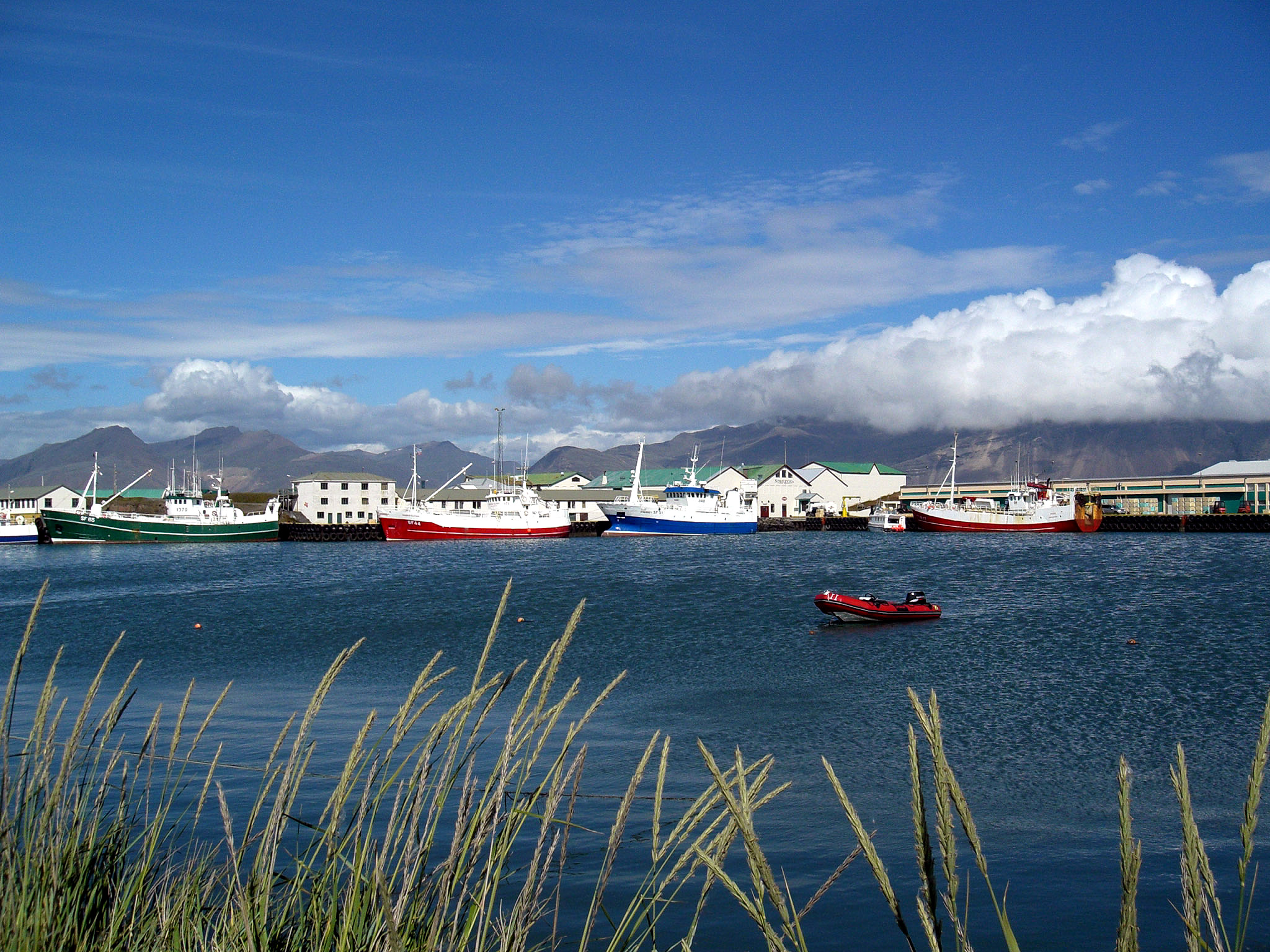 Iceland, Höfn, Harbour, Harbor, Southeastern Iceland, Ships, Summer, Sky